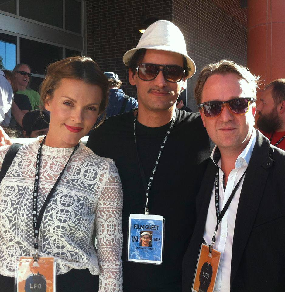 Actress Izabella Jo Tschig, director Antonio Tublén and actor Patrik Karlson at the world premiere screening of the movie LFO at Fantastic Fest in Austin, Texas, USA, on September 21, 2013